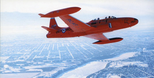 The Red Knight air demonstration/aerobatic aircraft of the Royal Canadian Air Force flying over Saskatoon, Saskatchwan, 1960. Aircraft is a CT-133 Silver Star, also known as the T-33. Although one T-33 was used for most shows, two were sometimes used.